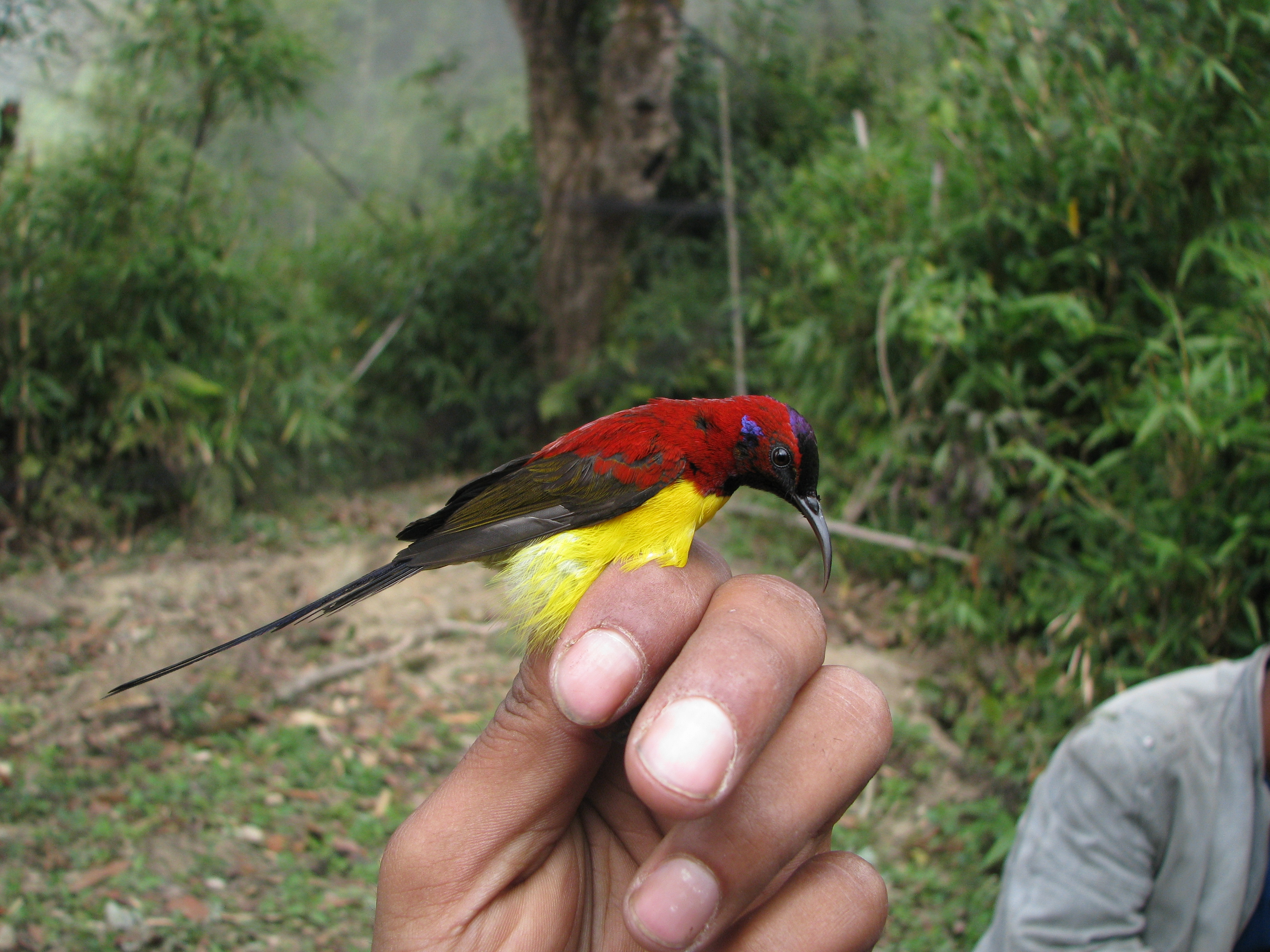 Mrs. Gould's Sunbird male, Eaglenest Wildlife Sanctuary